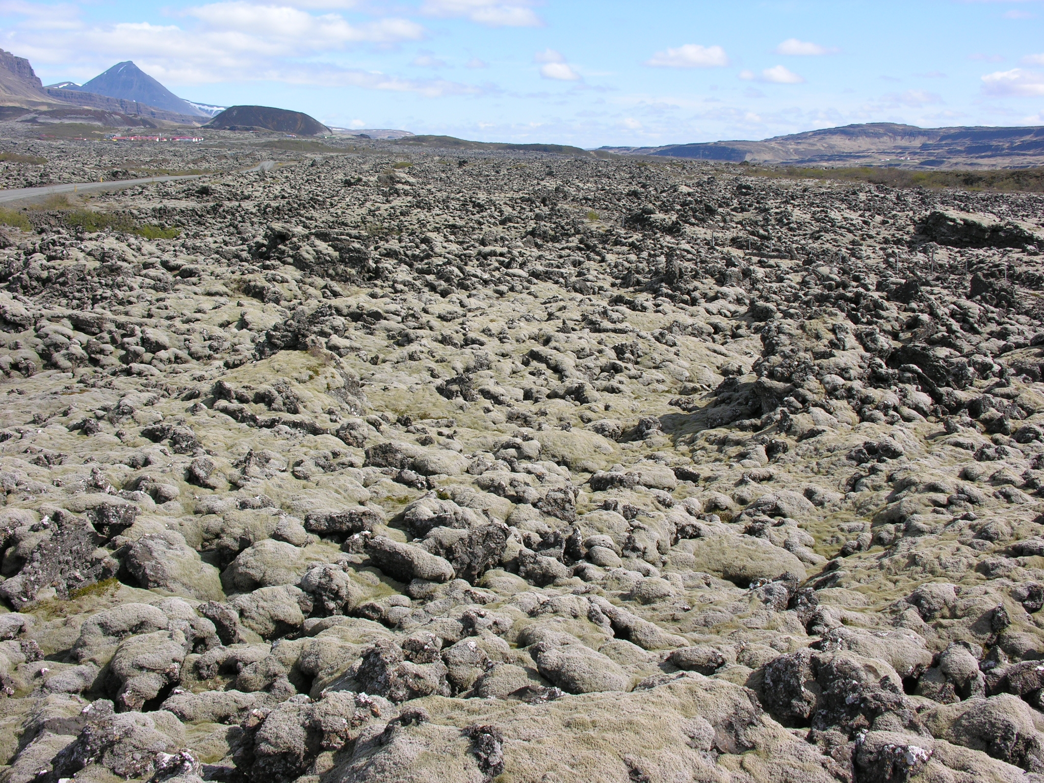 Iceland, views along road Road 1 in Iceland (Hringvegur). Picture is geocoded manually; if someone can contribute to the accuracy, please do so.